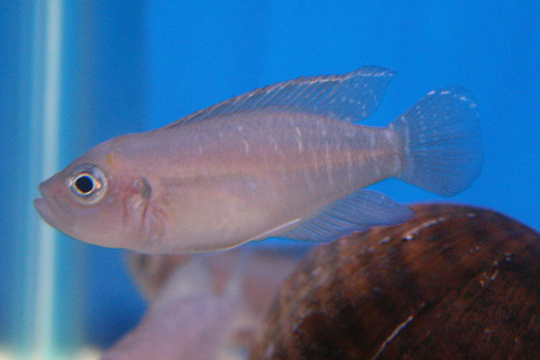 A small cichlid Neolamprologus brevis "sunspot" at the 20th Pramong Nomklao fish show event at the Future Park Rangsit, Thailand, in July 2008. Picture taken by myself